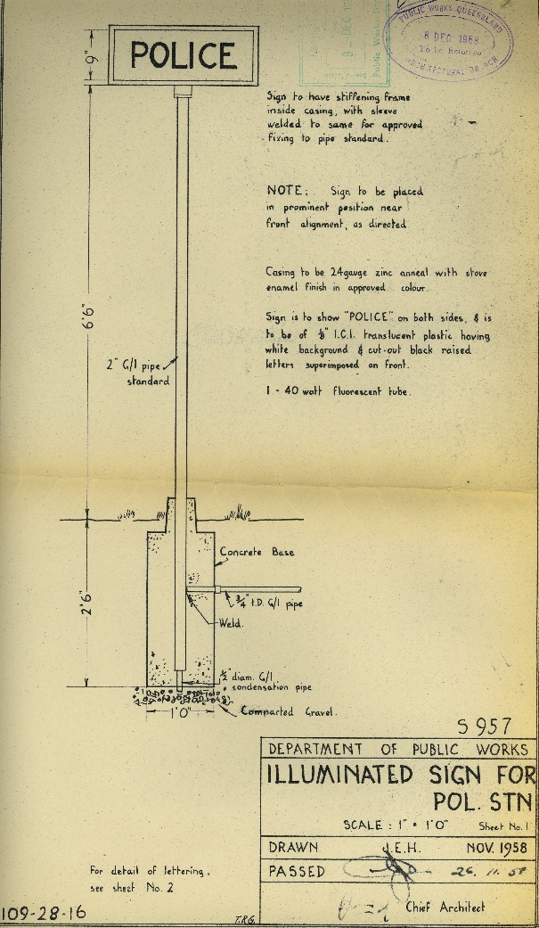 Original plan drawing for the first illuminated POLICE sign, dated November 26, 1958. Image Courtesy of the Queensland Police Museum